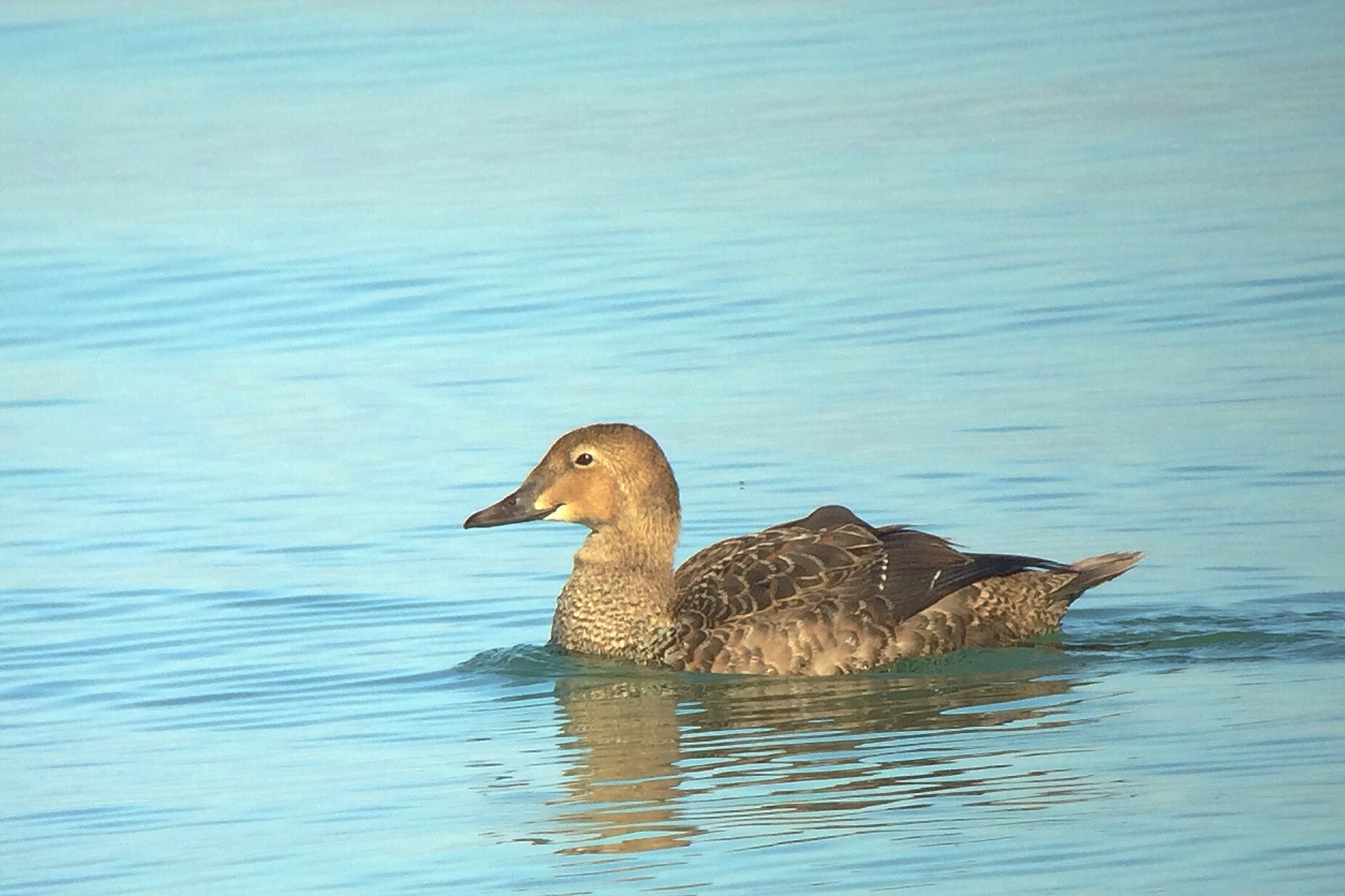 King Eider Somateria spectabilis, female, Sterling, New York, USA